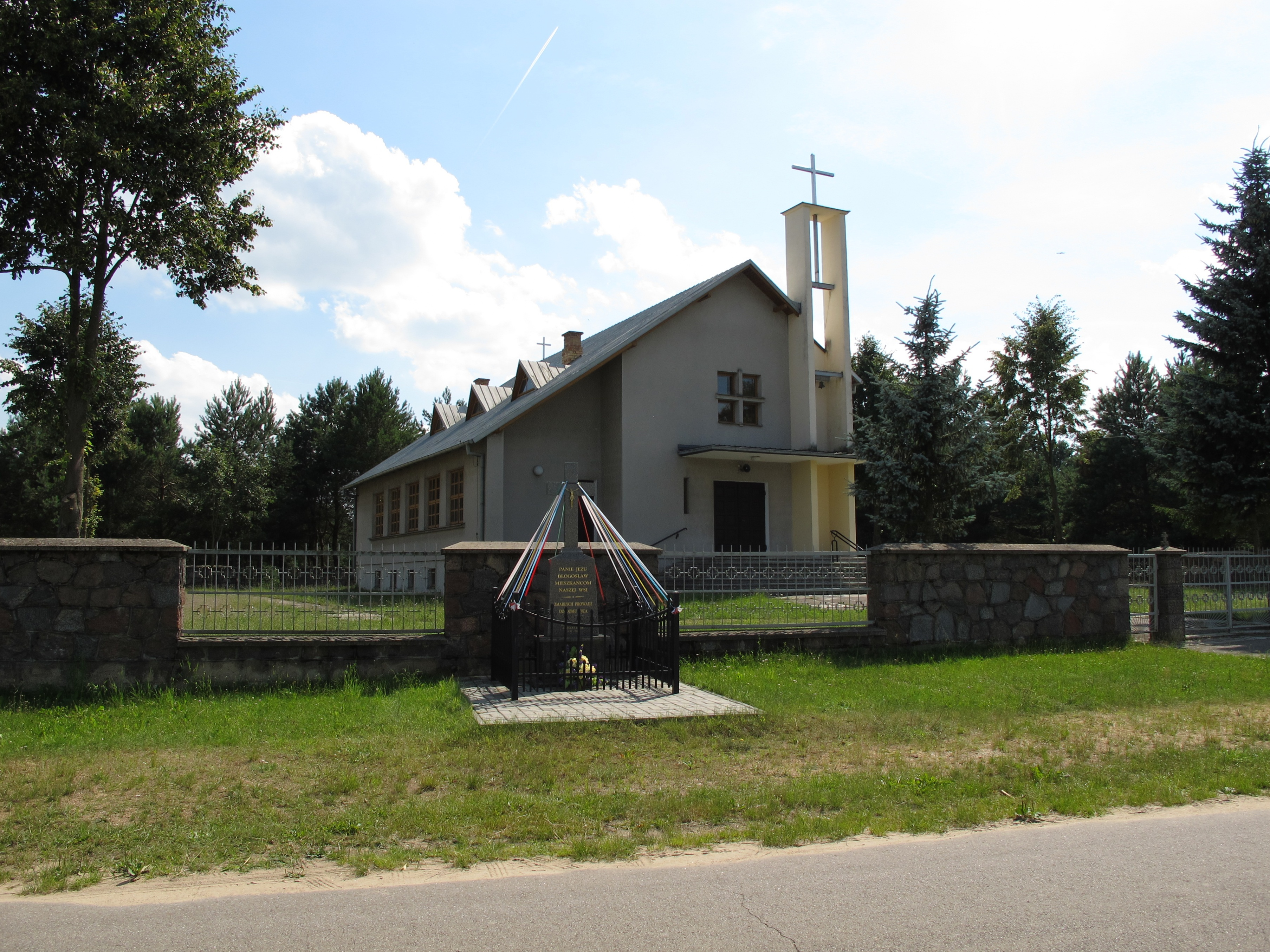 Cross by the Our Lady the Queen of Poland chapel in Samułki Duże, gmina Wyszki, podlaskie, Poland